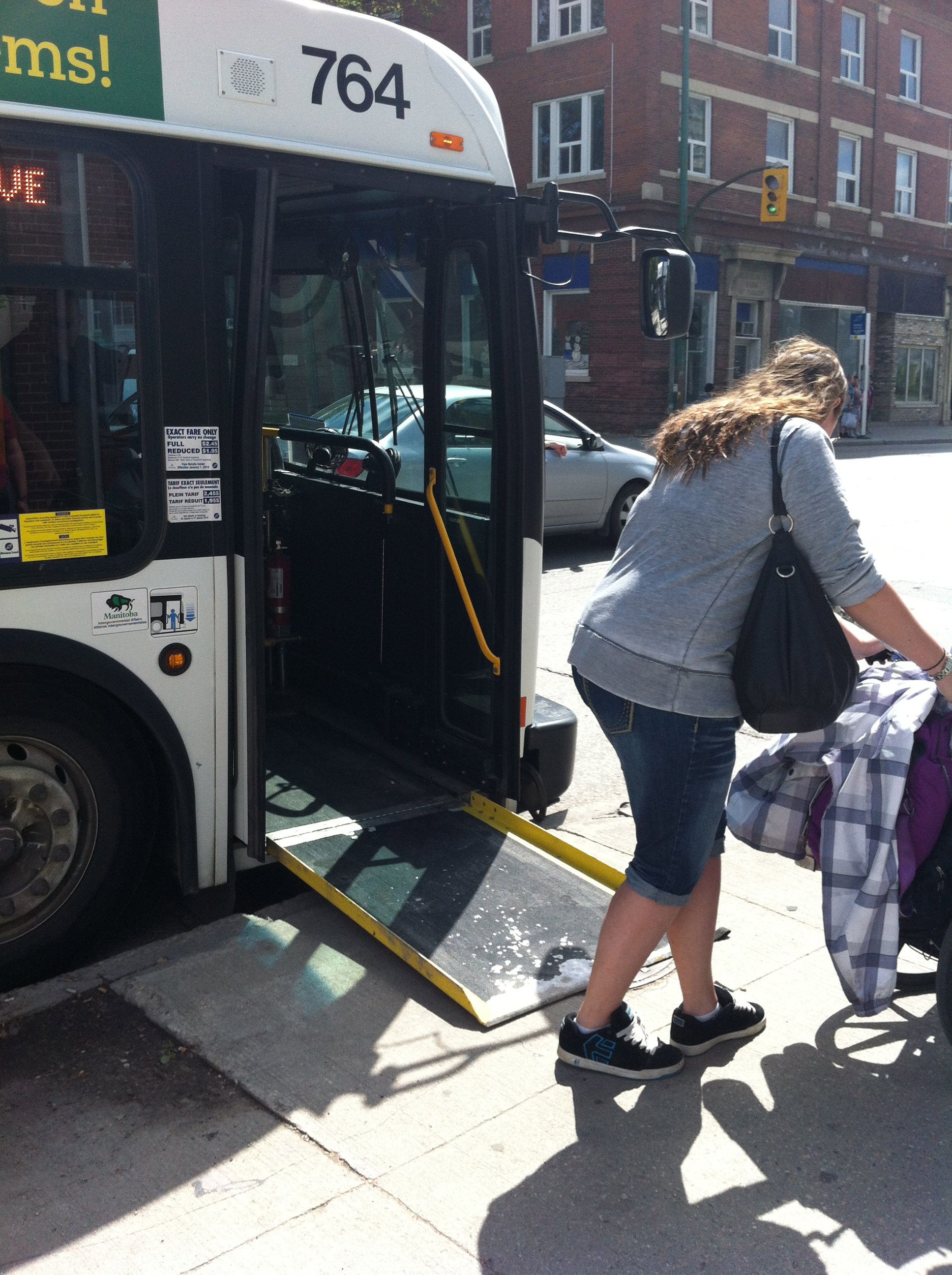 The ramp of a low floor bus is extended. Winnipeg Transit Route 16, Osborne Street at Morley Avenue, Winnipeg.